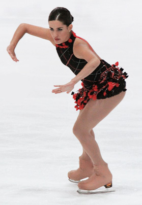 Sonia Lafuente at the 2009 Nebelhorn Trophy.